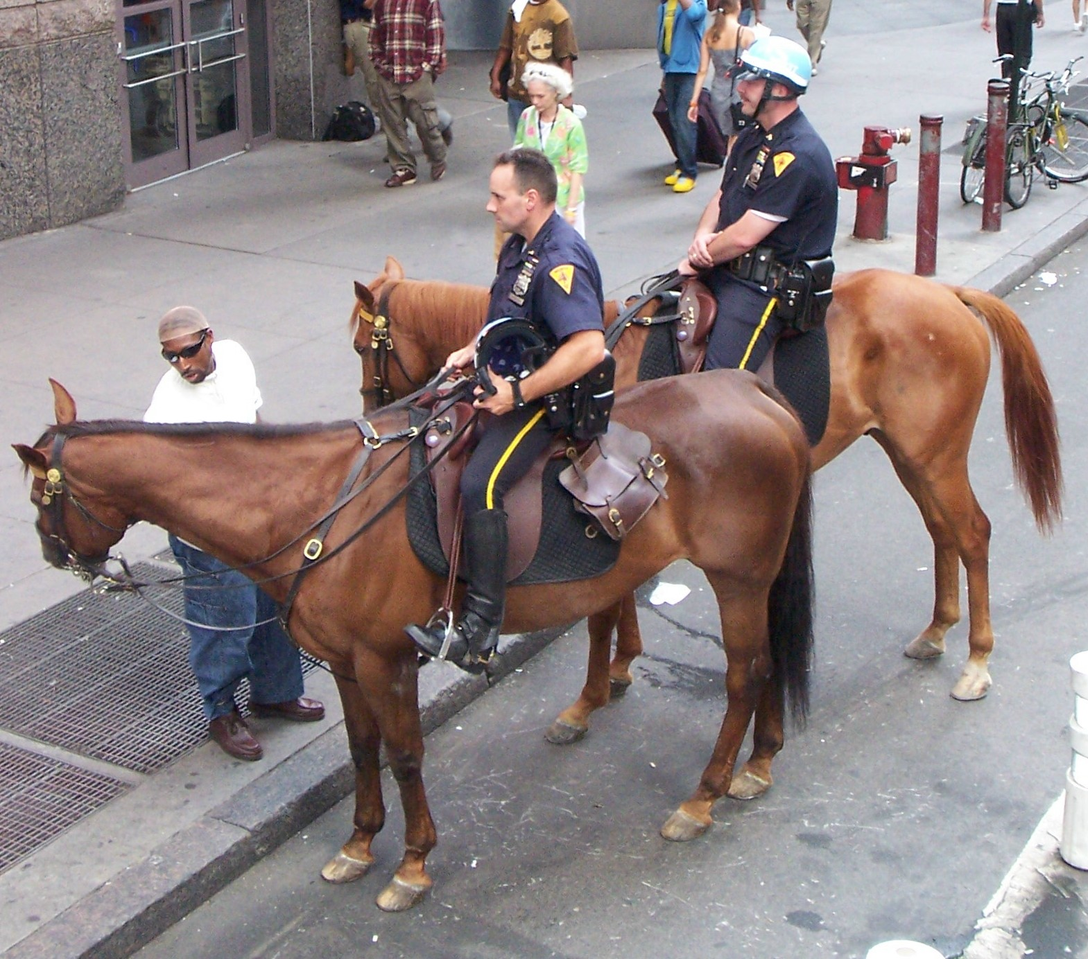 NYPD officers on horseback.